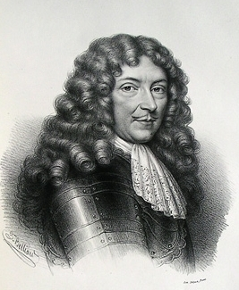 Nicolas Catinat (1637 – 1712)